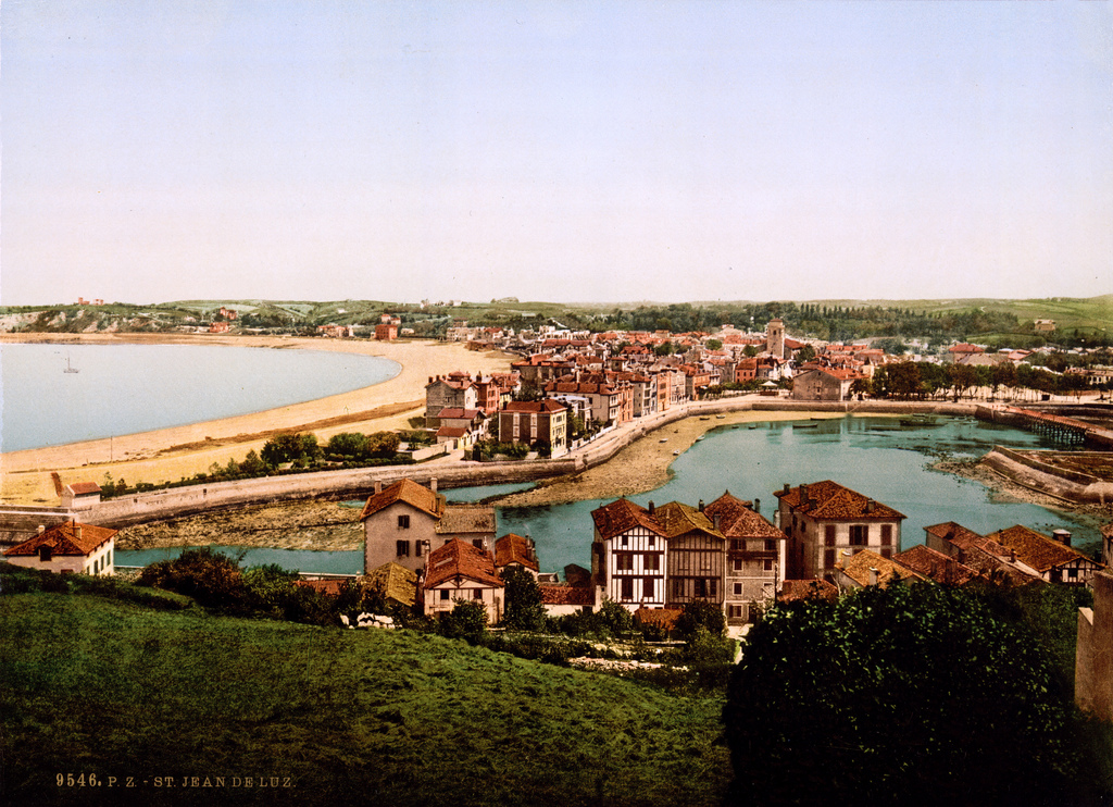 Saint-Jean-de-Luz (Labourd), Basque Country, France ca.1895